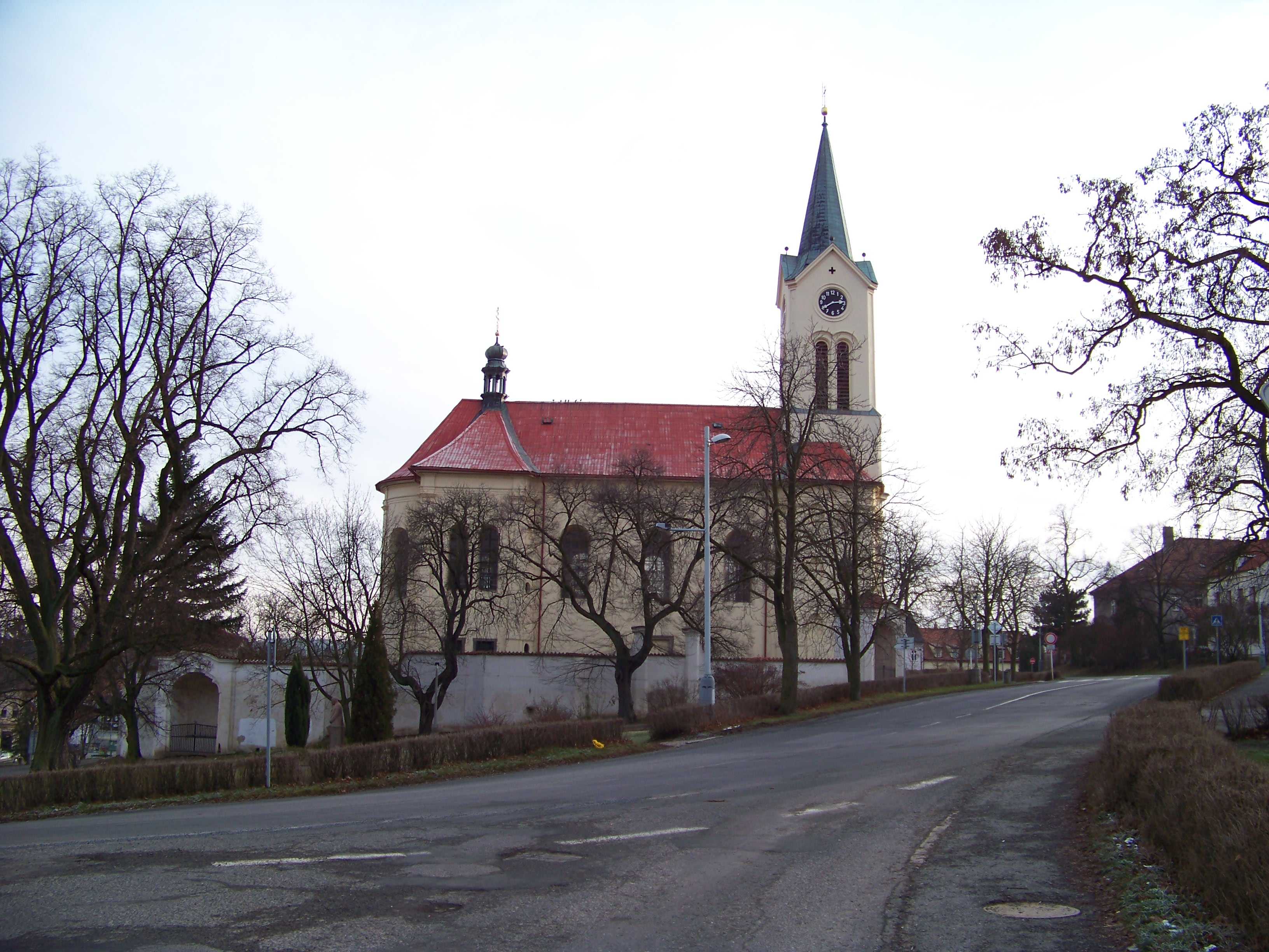 Mníšek pod Brdy, Prague-West District, Central Bohemian Region, the Czech Republic. F. X. Svoboda's Square. The church of Saint Wenceslaus. - Google Maps - Google Earth